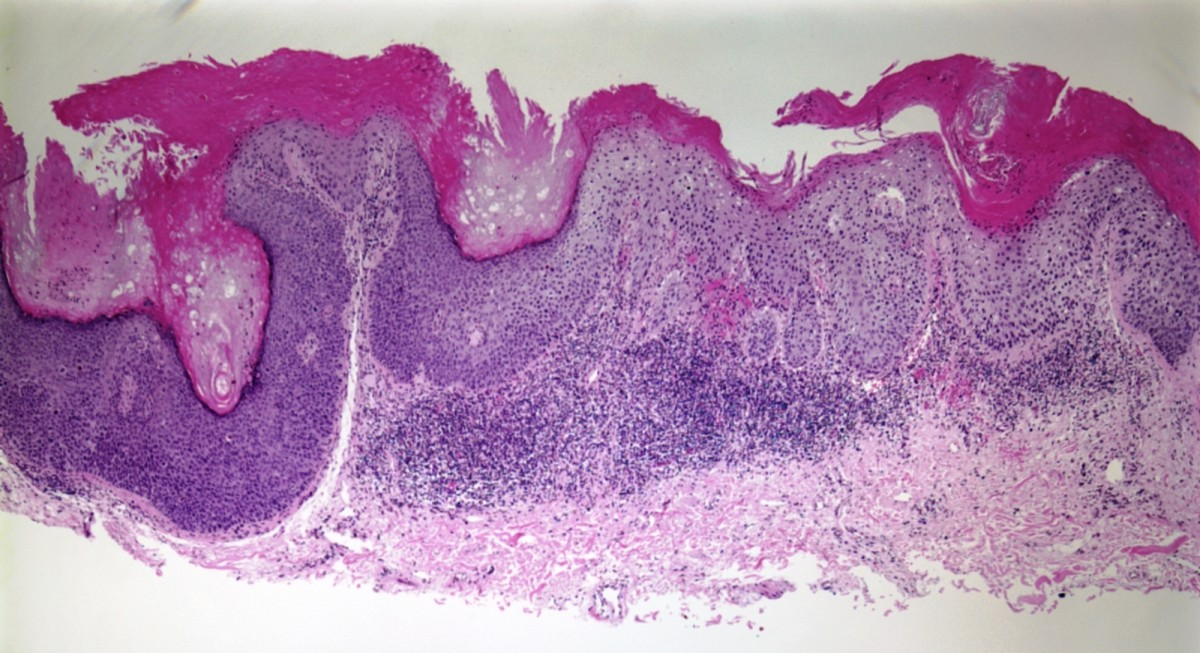 Squamous cell carcinoma in-situ, H & E, 4×.